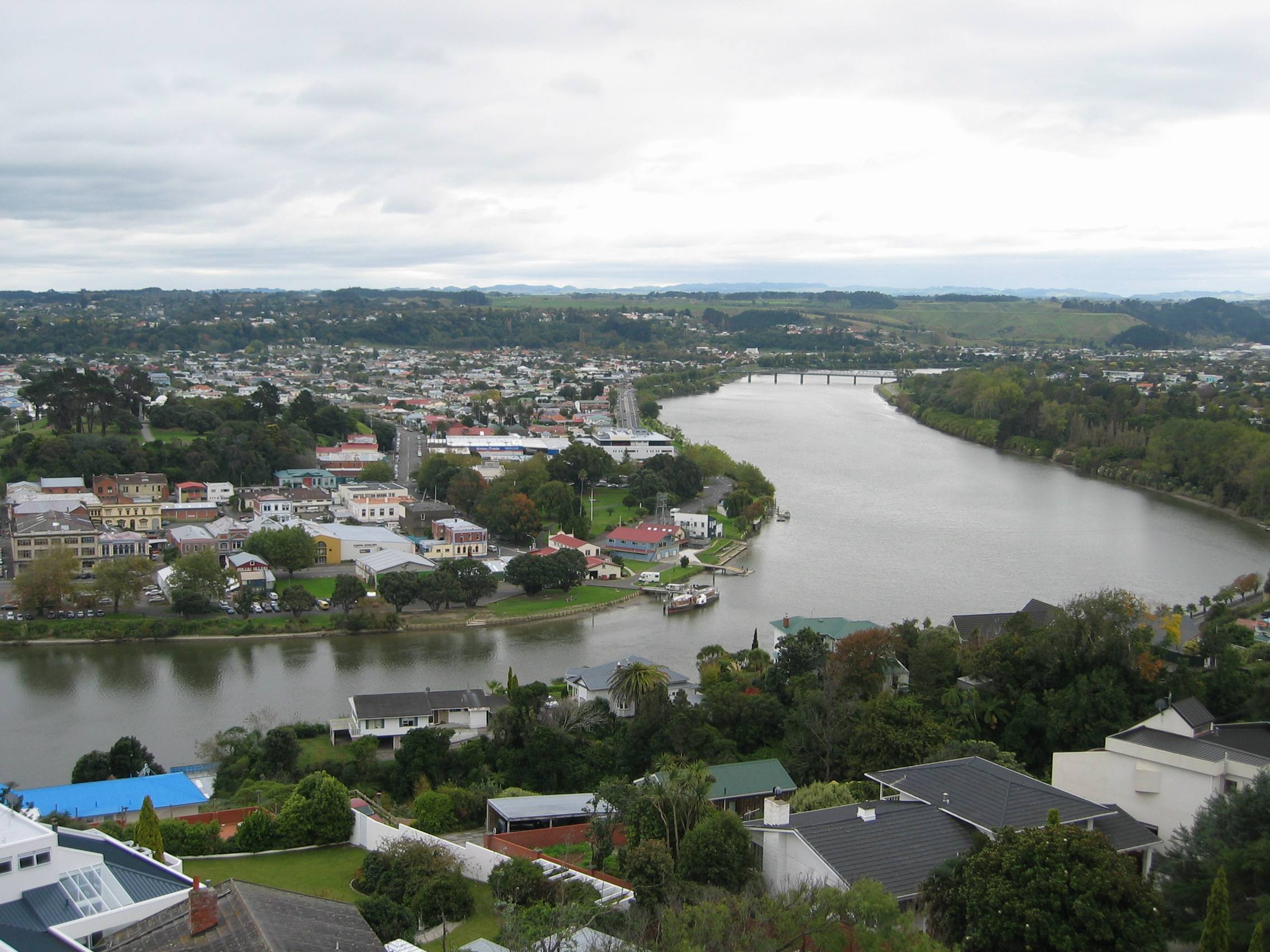 Wanganui and the Whanganui River, from Durie Hill, New Zealand.